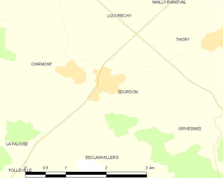 Map of French municipality Sourdon